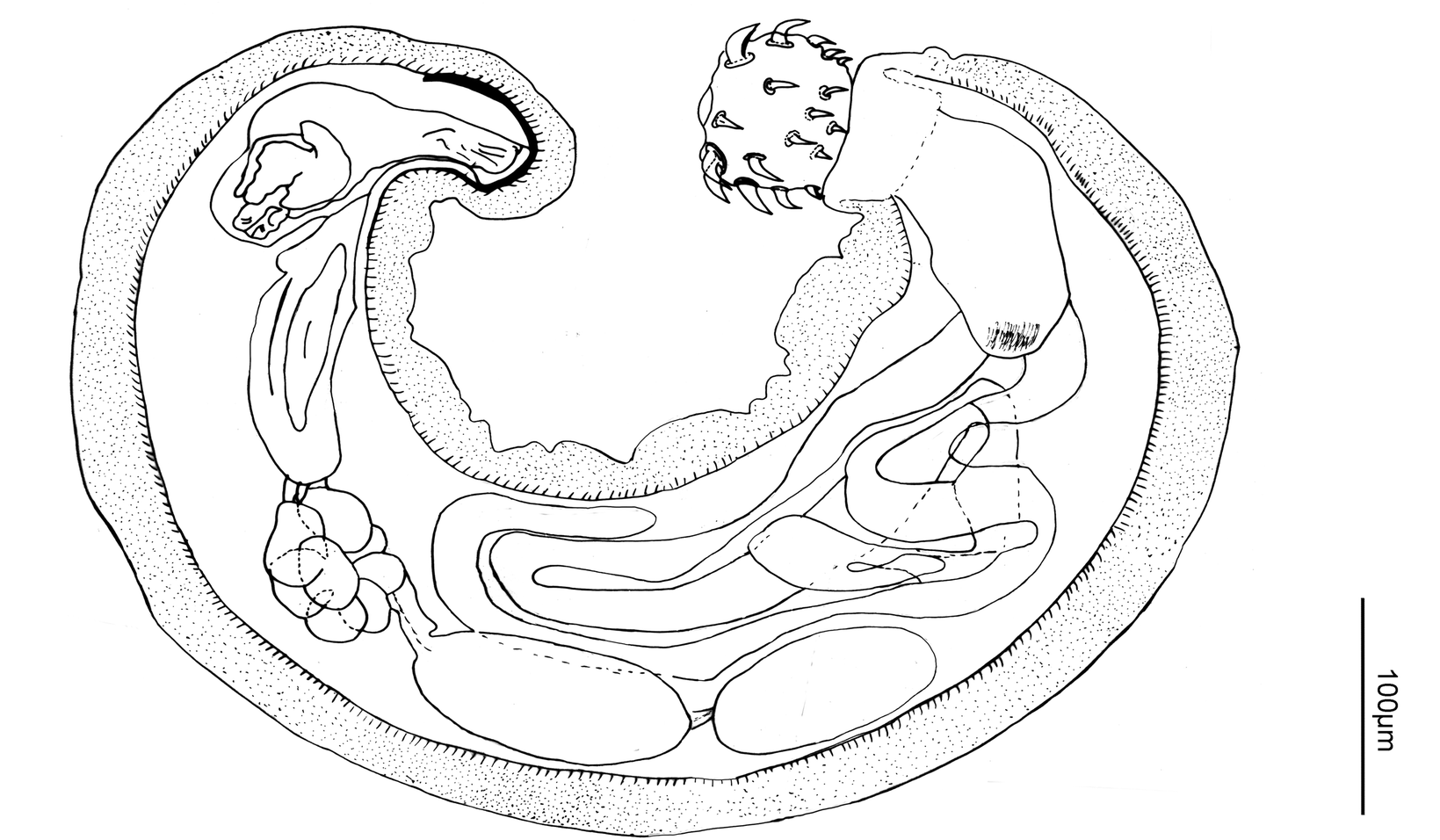 Diagram of a male Pachysentis lauroi showing the anterior and posterior testes, eight cements glands in a clustered arragement, the ejaculatory ducts and the retracted copulatory bursa